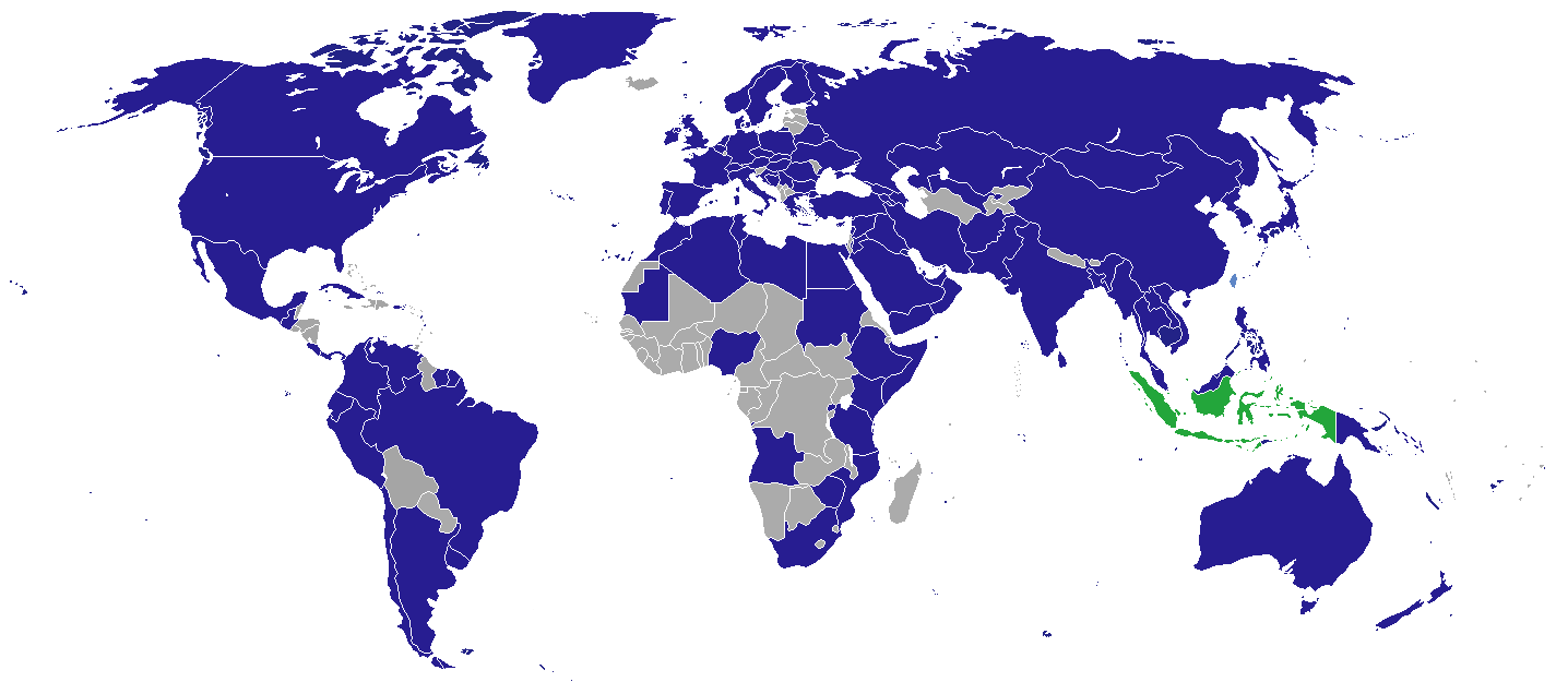 Map of diplomatic missions in Indonesia